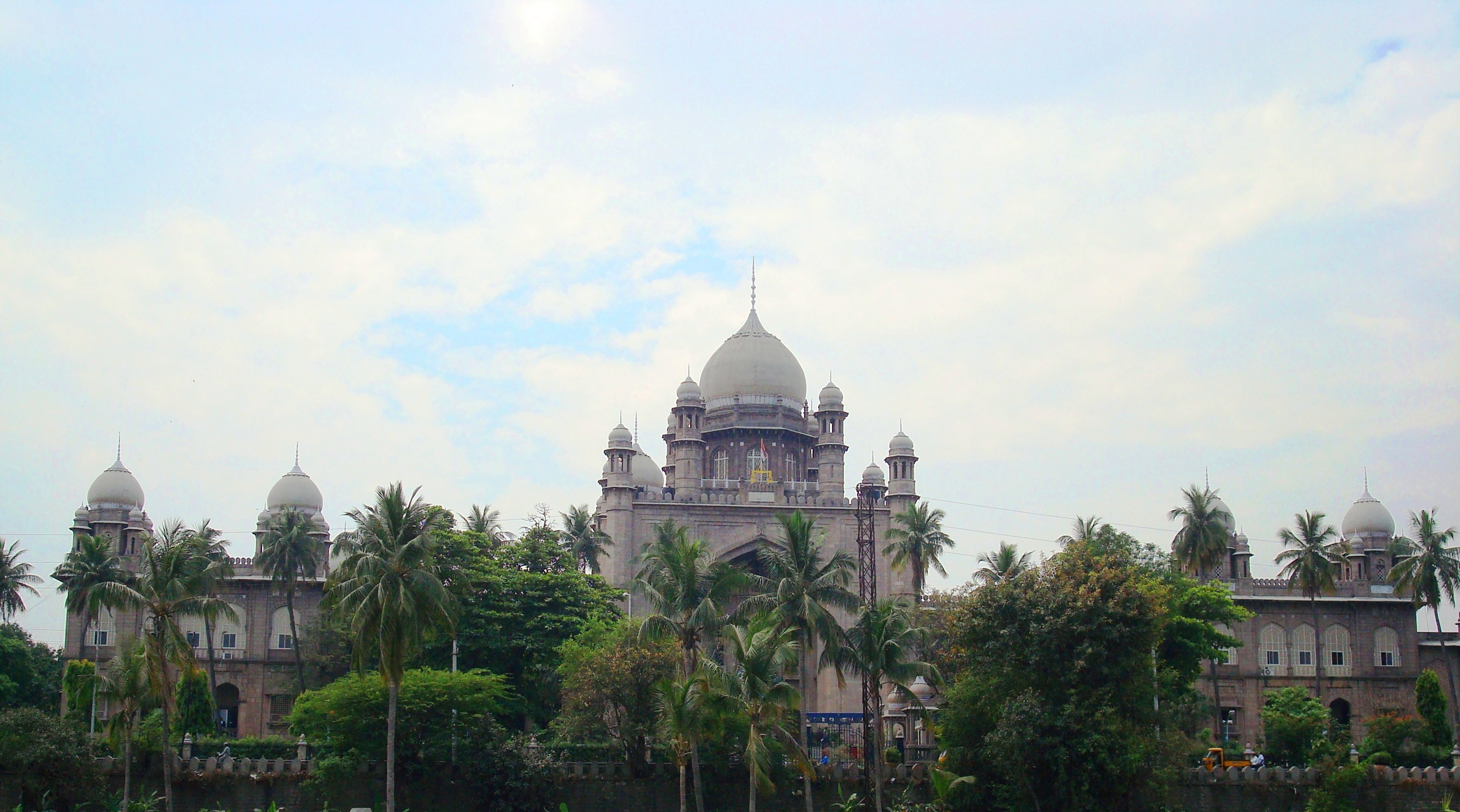 This image shows the AP High court located at Hyderabad.self-photographed.